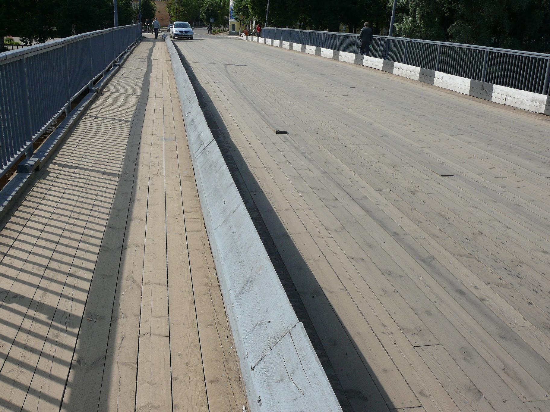 Jivoi bridge in Staraya Russa, Novgorod oblast, Russia